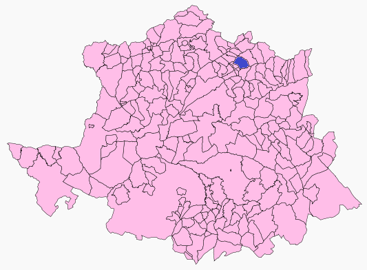 Navaconcejo